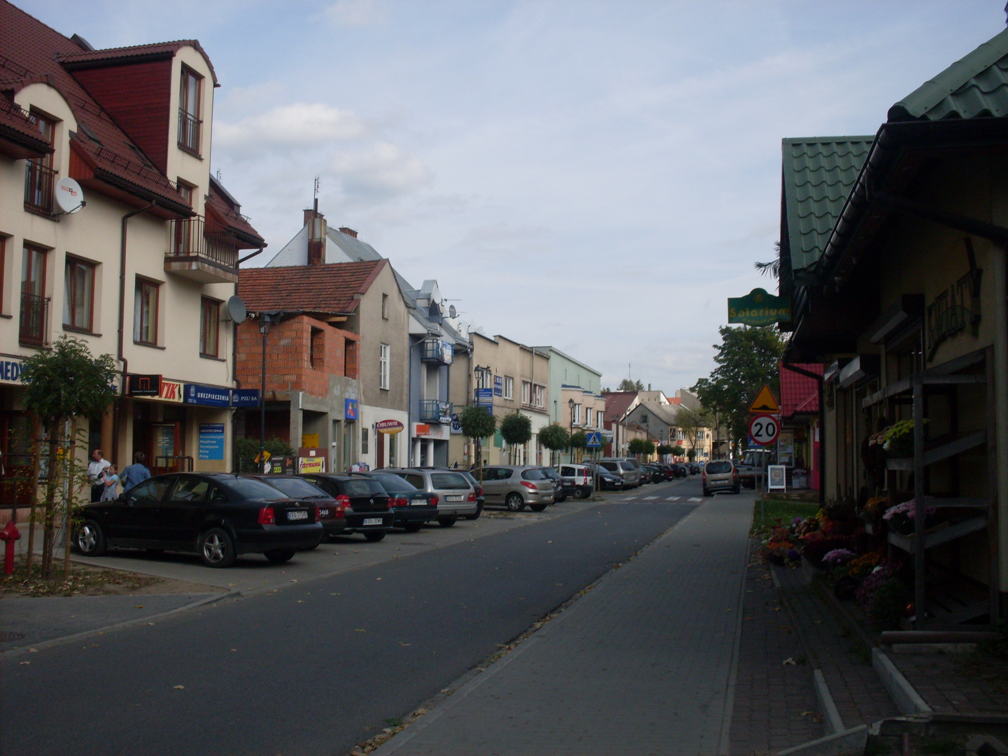 Wyki Street Krzeszowice